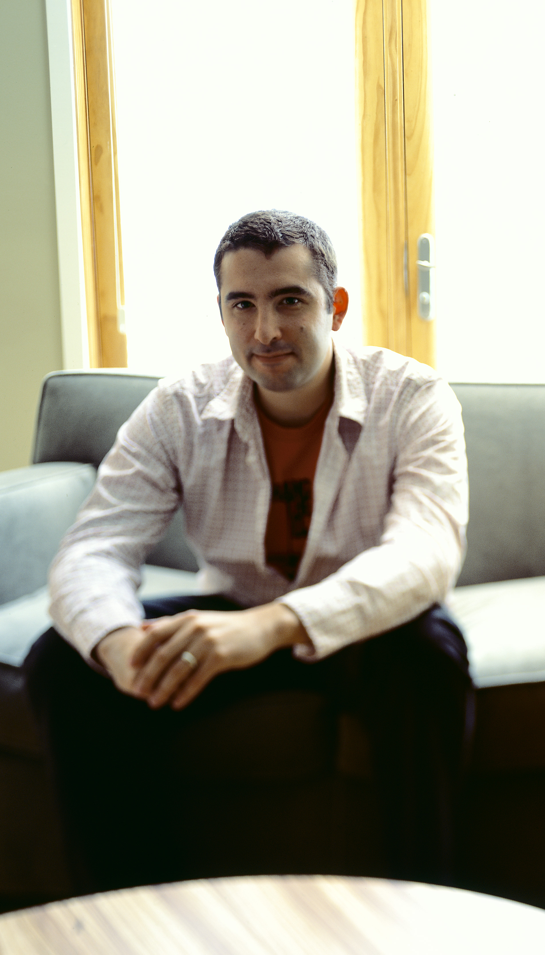 Joe Meno photograph